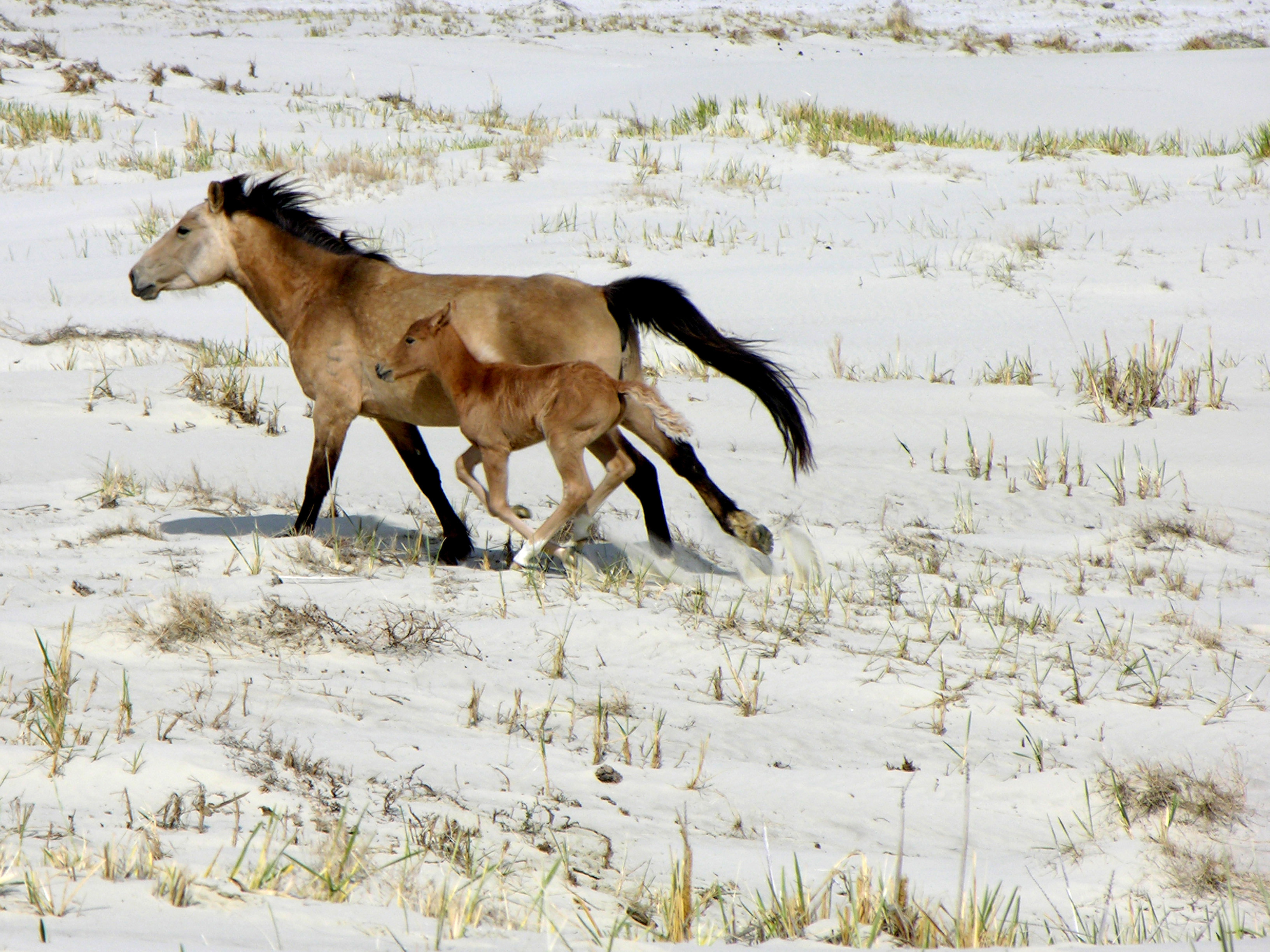 The Aral sea is drying up. Bay of Zhalanash, Ship Cemetery. Horse and foal, Aralsk, Kazakhstan